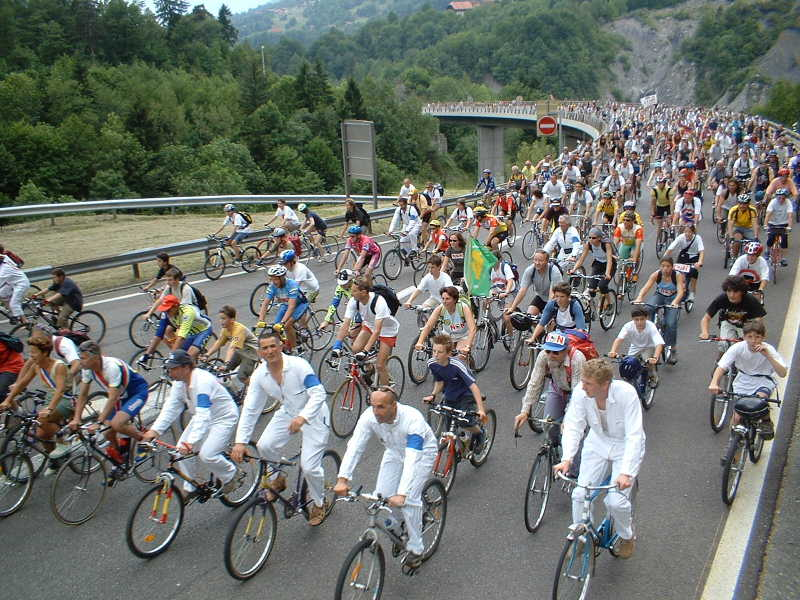 bicycle demonstration in Chamonix.